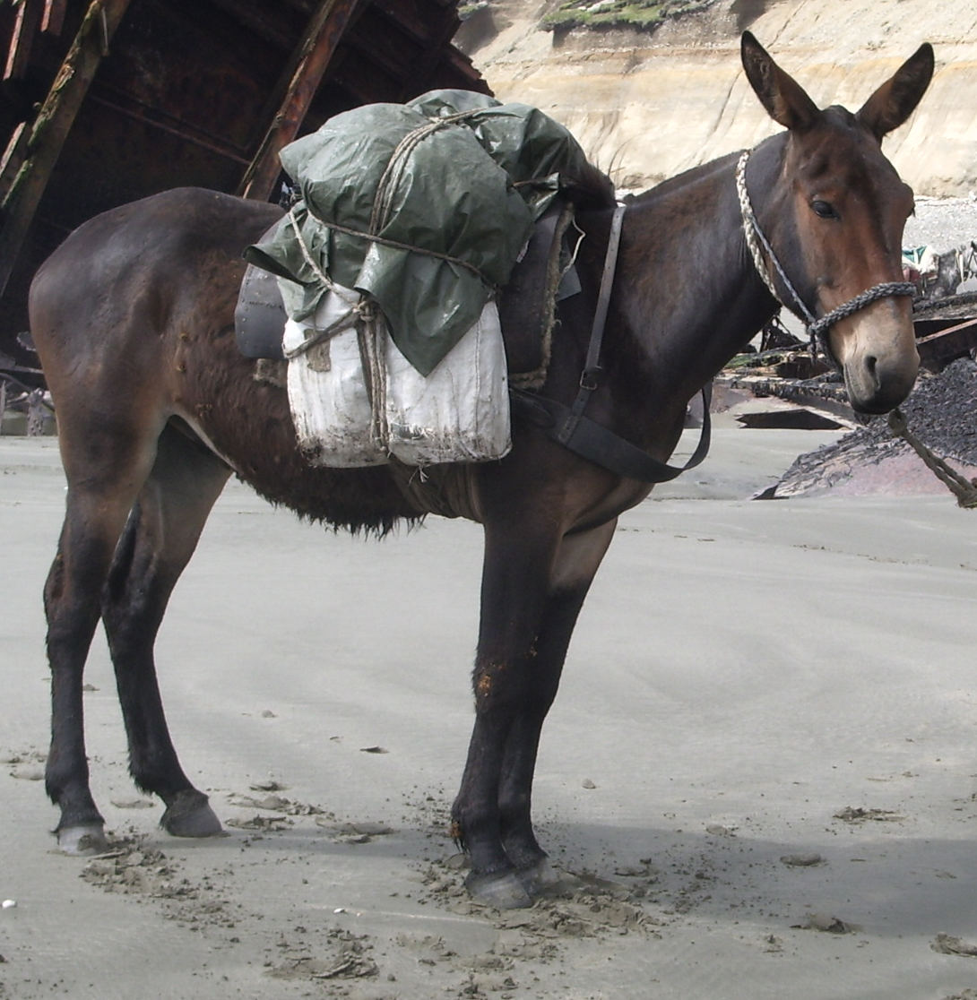 Cropped version of File:Juancito.jpg, for use to identify mules.